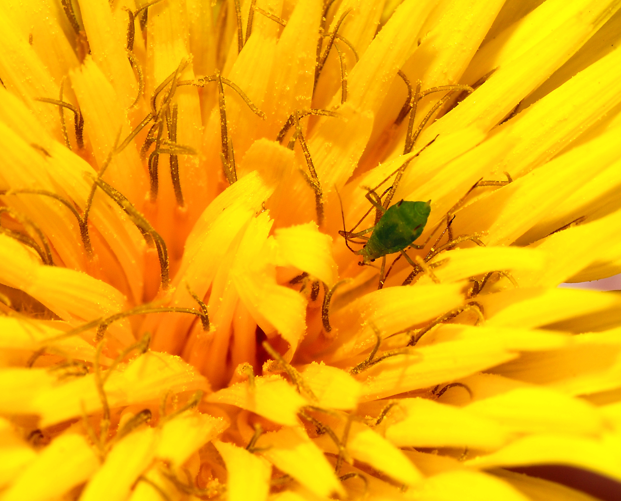 A small aphid (less than 2mm body length) of the Aphididae family feeding inside a Common Hawkweed flower. Notice the two cornicles at the hind end of the abdomen that exude waxy secretions